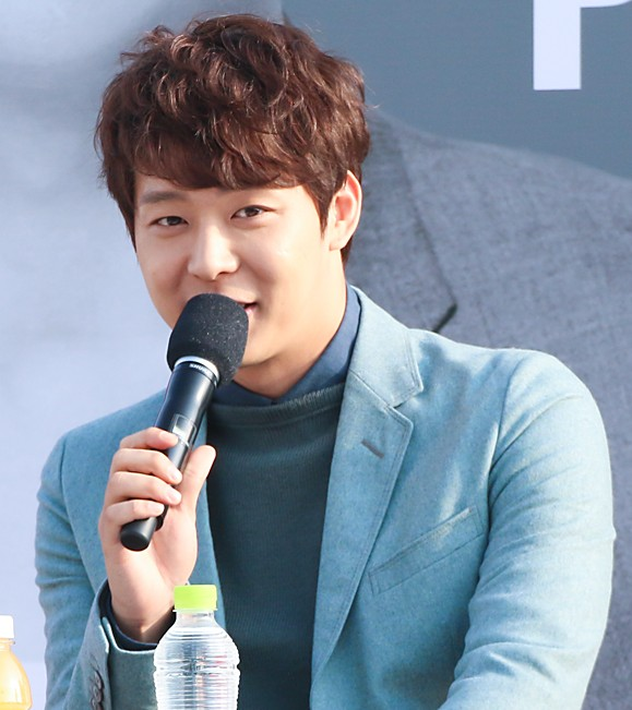 Yoochun at "Birth of actor, Park Yoochun" open talk at BIFF, 3 October 2014